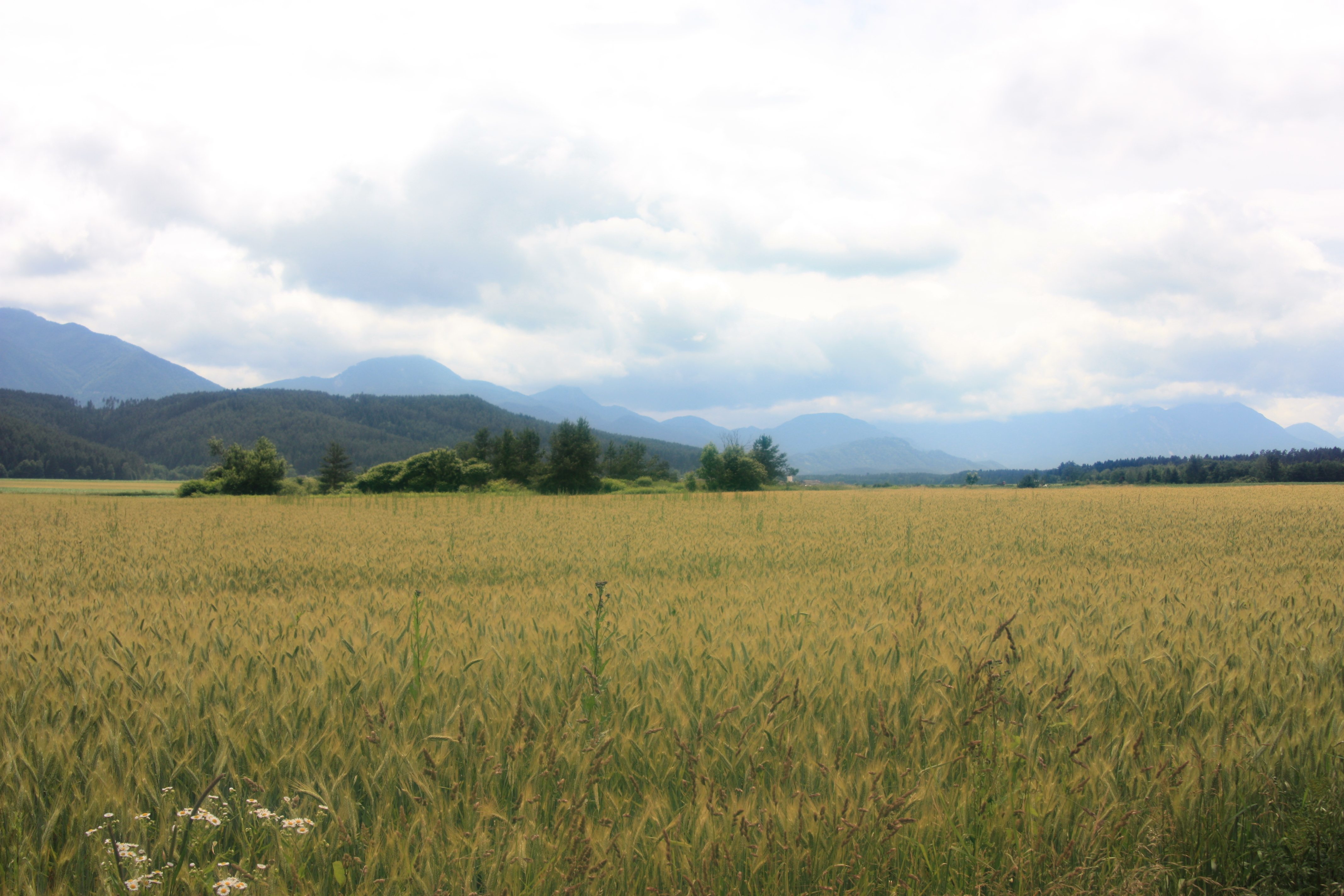 Fields near Bleiburg, Carinthia